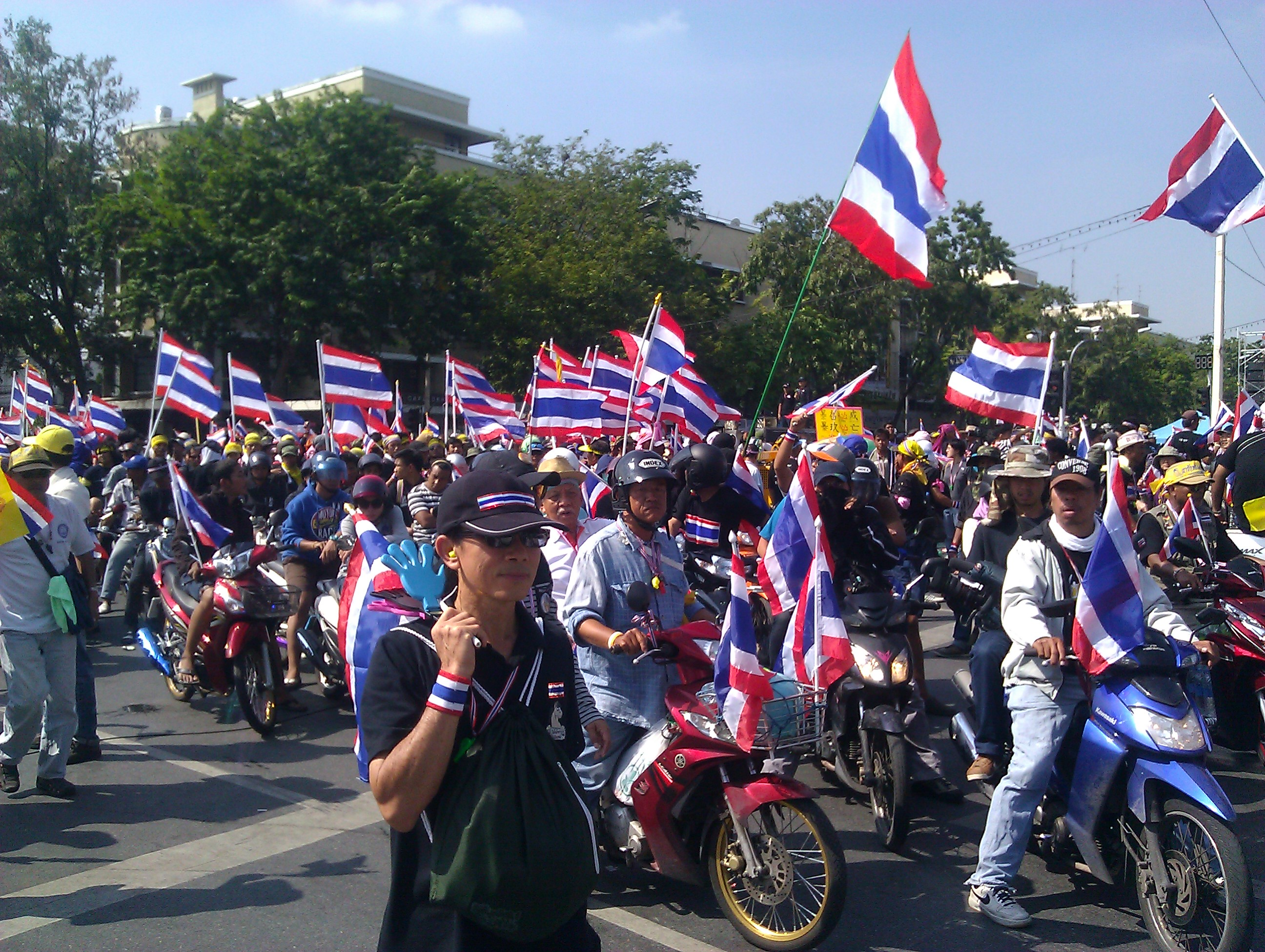 Anti-government protesters in Bangkok, on motorcycles while mobilizing to surround government offices, 1 December 2013